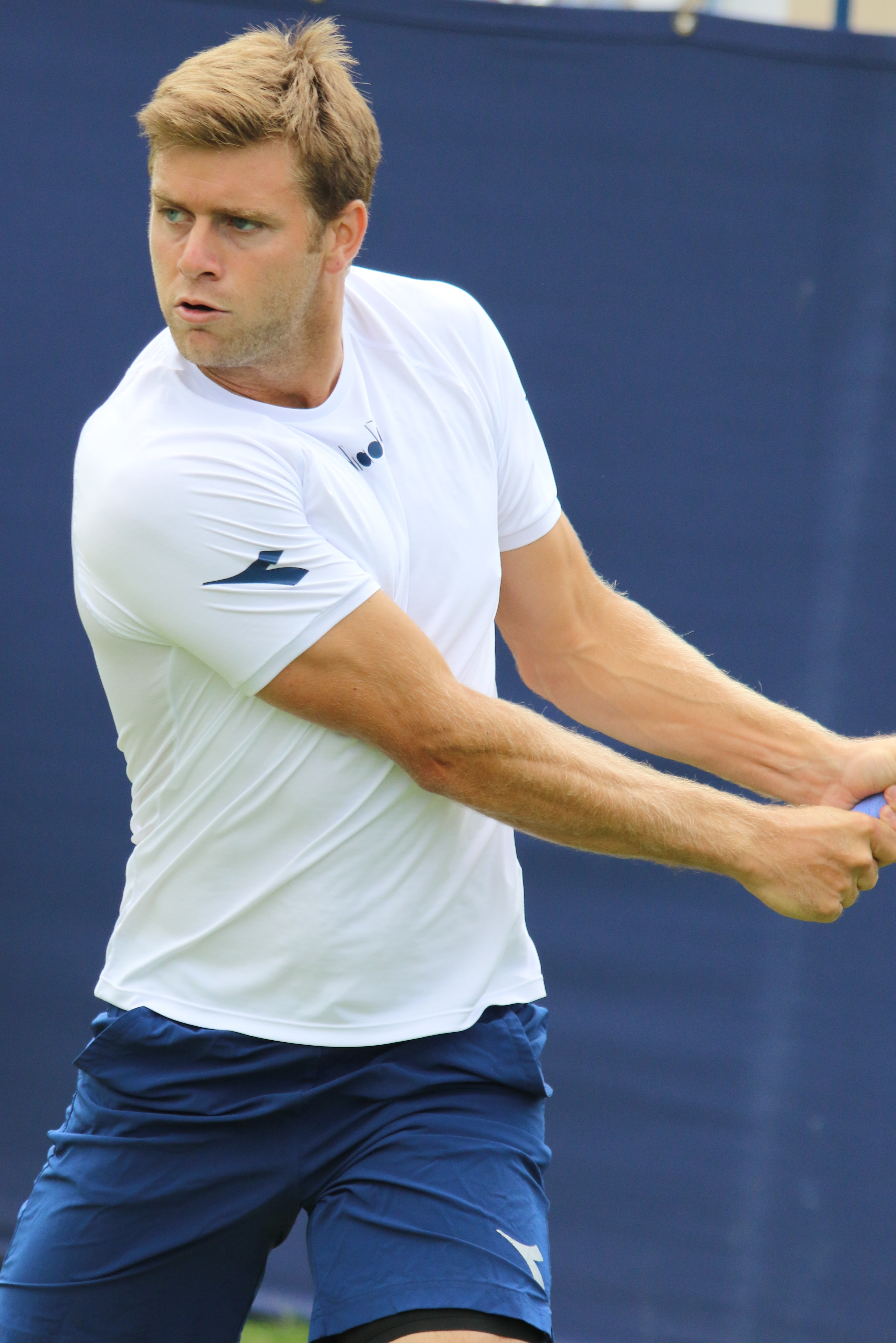 Harrison R. EBN17 (12)